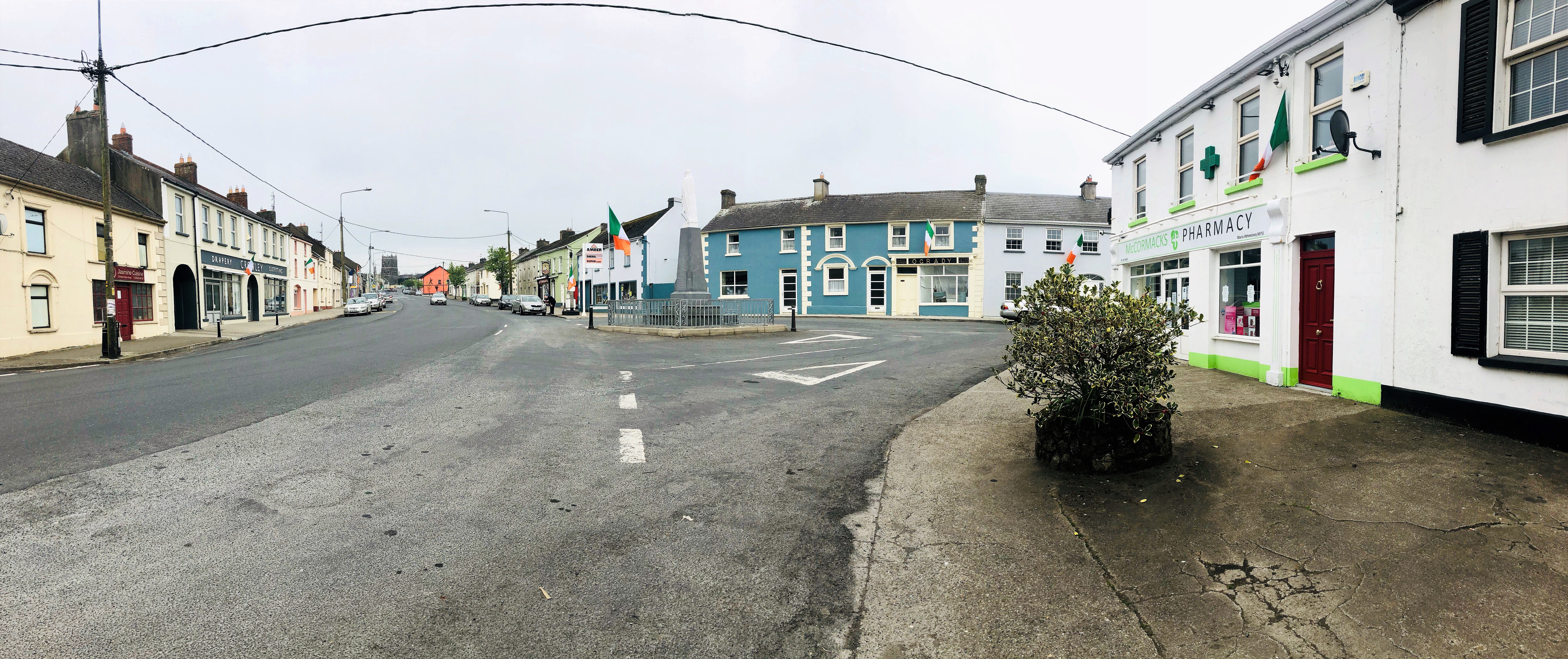 Ballylanders